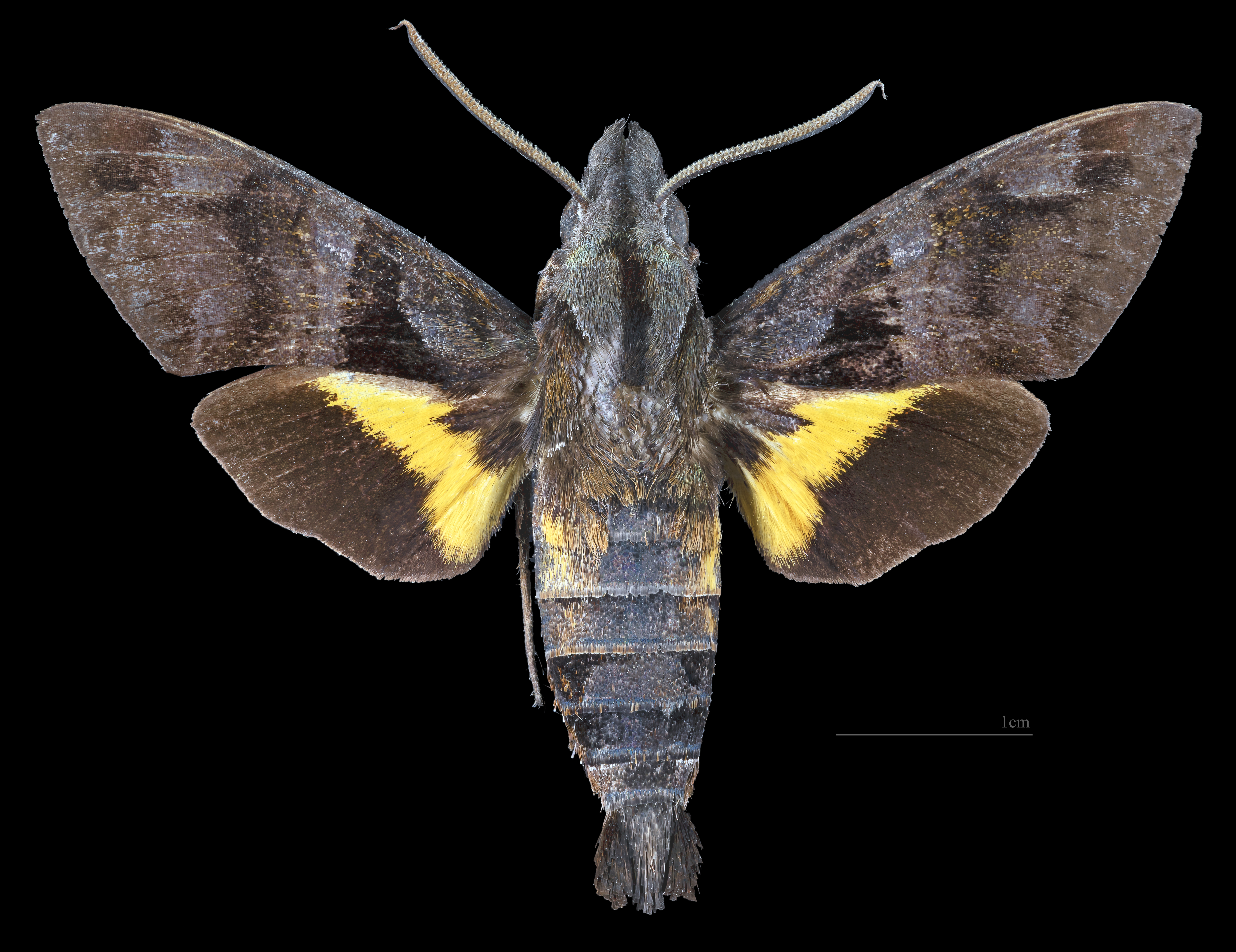 Macroglossum reithi - Dorsal side Collection of the Mathematician Laurent Schwartz